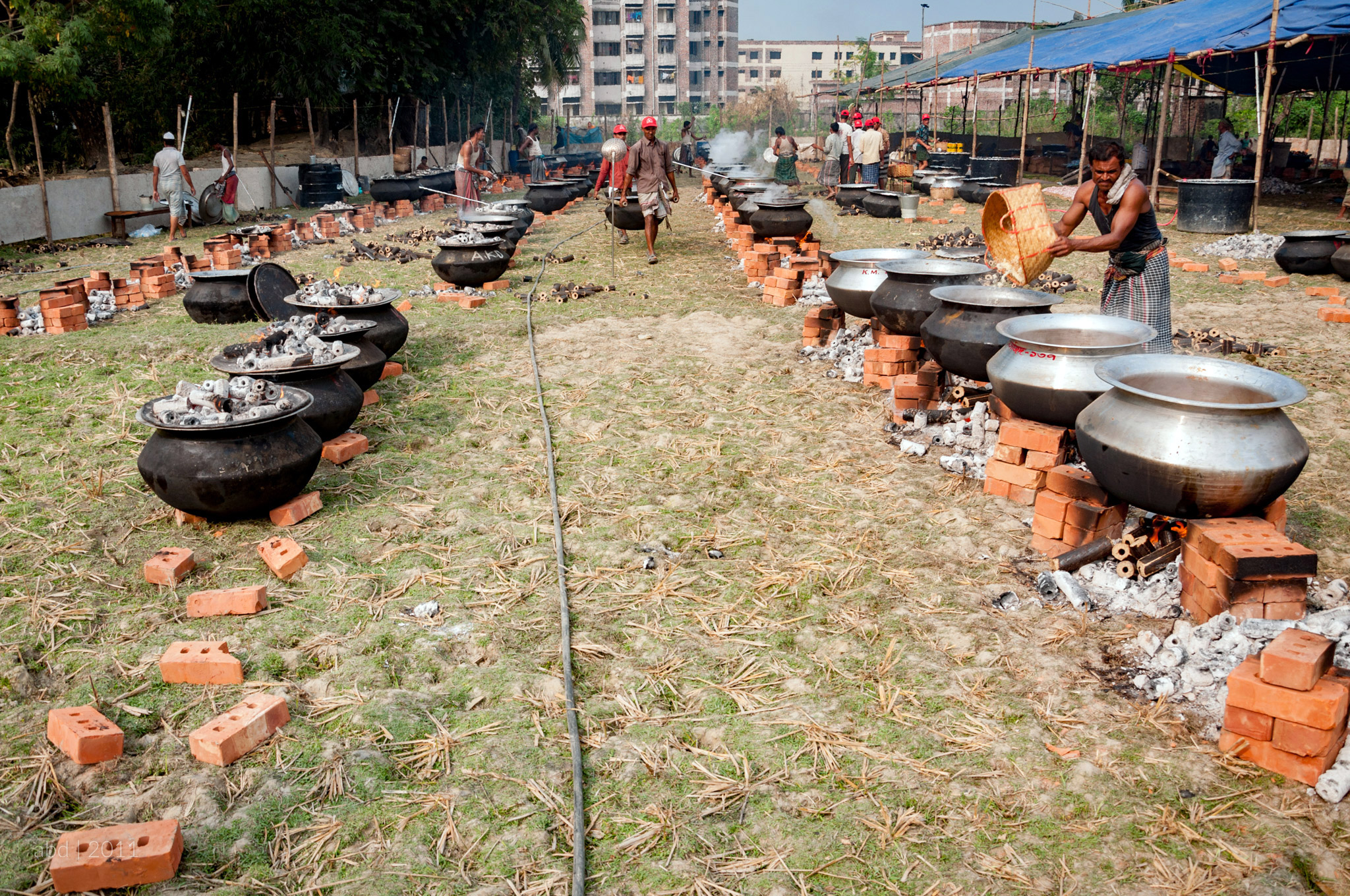 Traditional Mejban (cooking), Chittagong, Bangladesh.